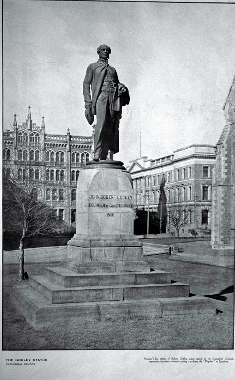 The statue remained in front of the Cathedral until 5 Mar. 1918 when it was moved to the north of the Cathedral (as shown in this photograph) to make way for a tram shelter and toilets. These facilities were later demolished and the statue returned to its original position in 1933.